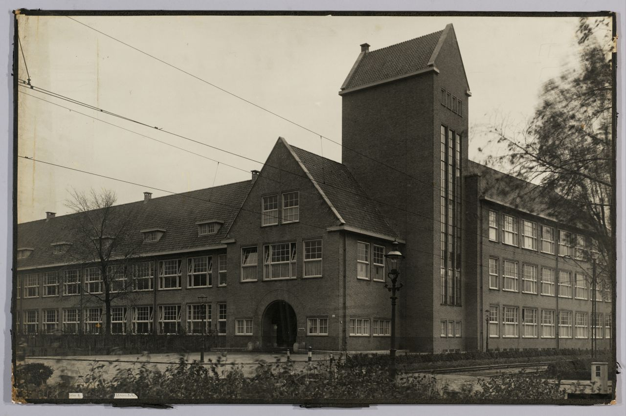 Vijfde Ambachtsschool, Meeuwenlaan, Amsterdam. Architect: J. van der Linden Fotograaf: onbekend. Collectie NAi / TENT_n62 URL van deze afbeelding: Meer foto's uit deze collectie kunt u bekijken in de Collectiedatabase van het NAi. Niet van alle gebouwen en interieurs zijn alle gegevens bekend. Heeft u meer informatie of weet u het adres van een gebouw? Laat dan een reactie achter (als u ingelogd bent bij Flickr) of stuur een mailtje naar: Al deze foto's zijn gemaakt in de eerste helft van de twintigste eeuw. Wij zijn benieuwd hoe deze gebouwen er vandaag de dag uitzien. Heeft u recente foto's van deze gebouwen of locaties, voeg ze dan toe als commentaar. U kunt een eigen Flickr-foto toevoegen door de URL ervan tussen vierkante haken in het commentaarveld te plakken. Fifth Vocational School, Meeuwenlaan, Amsterdam. Architect: J. van der Linden Photographer: unknown. NAI Collection / TENT_n62 Persistent URL: For more photographs from this collection, please visit the NAI Collection Database You can help us gain more knowledge on the content of our collection by adding a comment with information. If you do not wish to log in, you can write an e-mail to: All these pictures are taken in the first half of the twentieth century. We are curious to learn how these buildings look like today. If you have recently taken photographs of these buildings or locations, please add them to your comment. If you'd like to include a Flickr photo, simply copy and paste its URL between square brackets in the commentary-field.